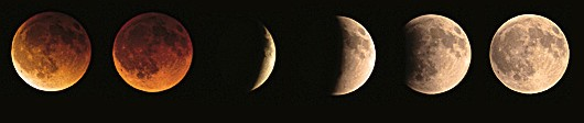 Moon eclipse in Belgium (Hamois).